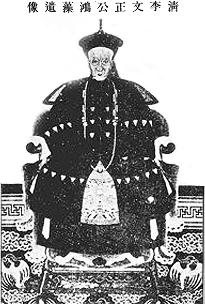 Li Hongzao, politician of the Qing Dynasty.